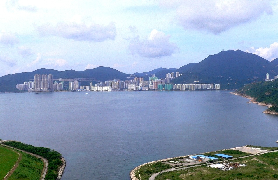 View of Junk Bay and Chai Wan in Tseung Kwan O, Hong Kong.